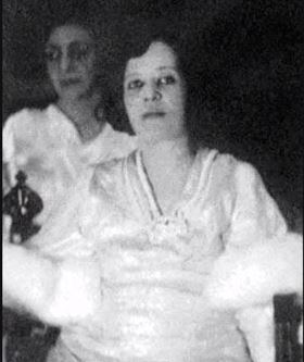 Hazima bint Nasser, queen of Iraq